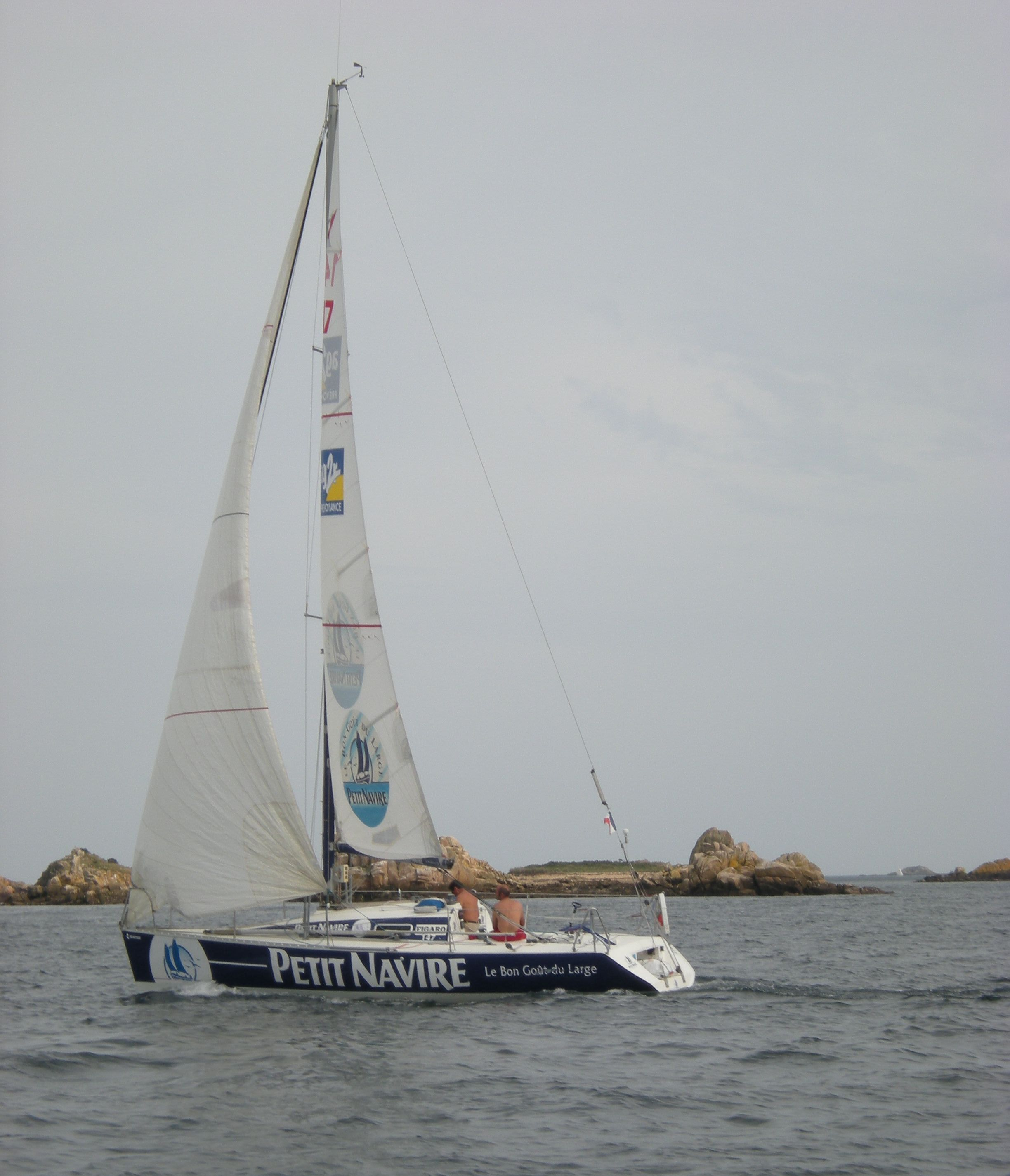 Figaro Solo (Figaro Bénéteau I), singlehand one-design 1990, designers Jean-Marie Finot and Jean Berret. Trieux river, near Bréhat island, after the race Régate des Lilas Blancs 2010 of Loguivy-de-la-Mer, Ploubazlanec.